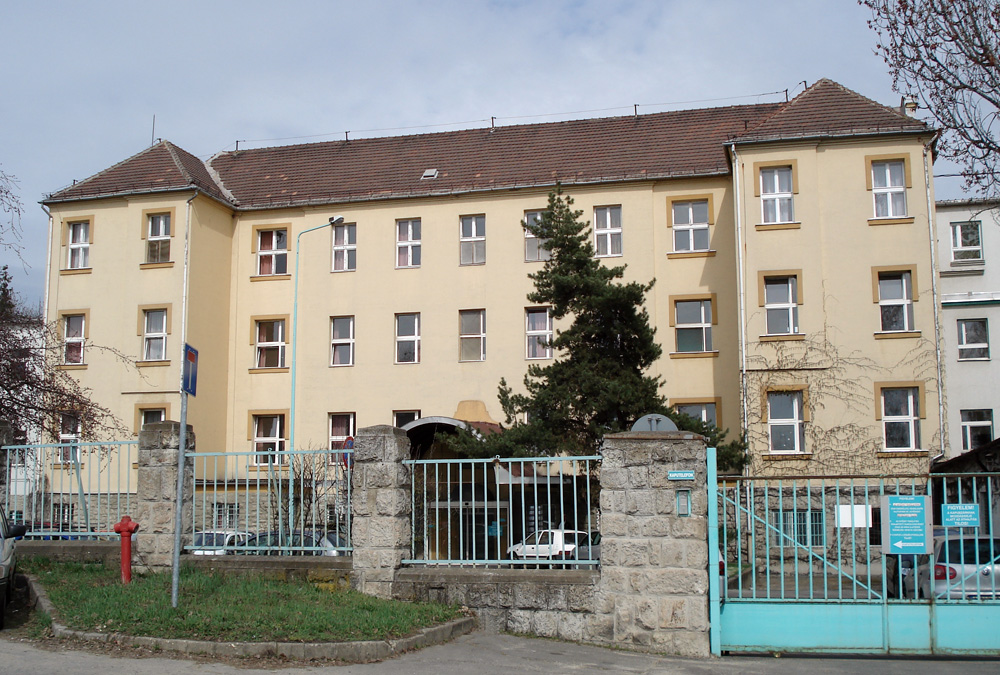 Szt. Ferenc Hospital, Old buildings, Miskolc, Hungary